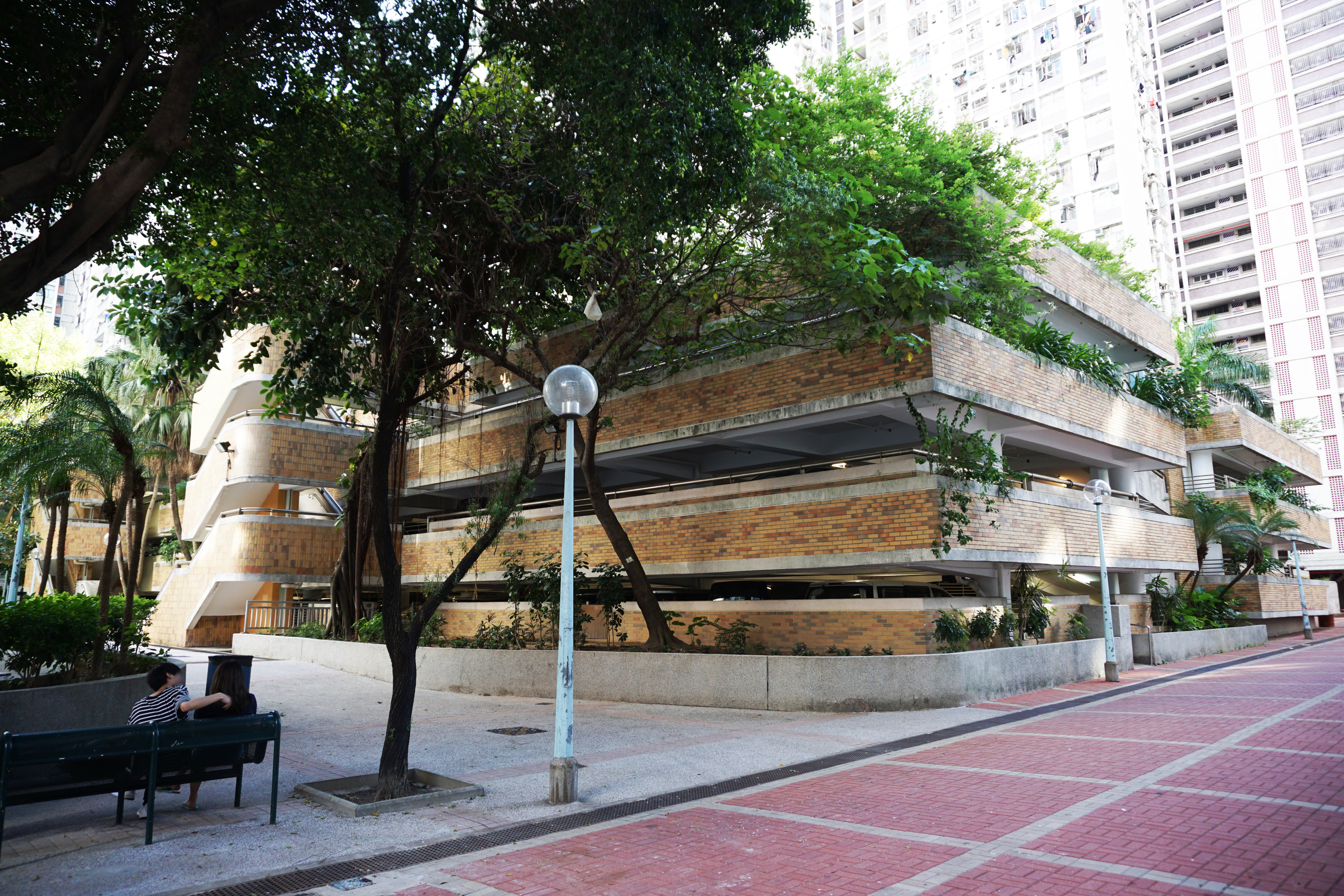 Kwai Fong Estate in Kwai Chung, Hong Kong.